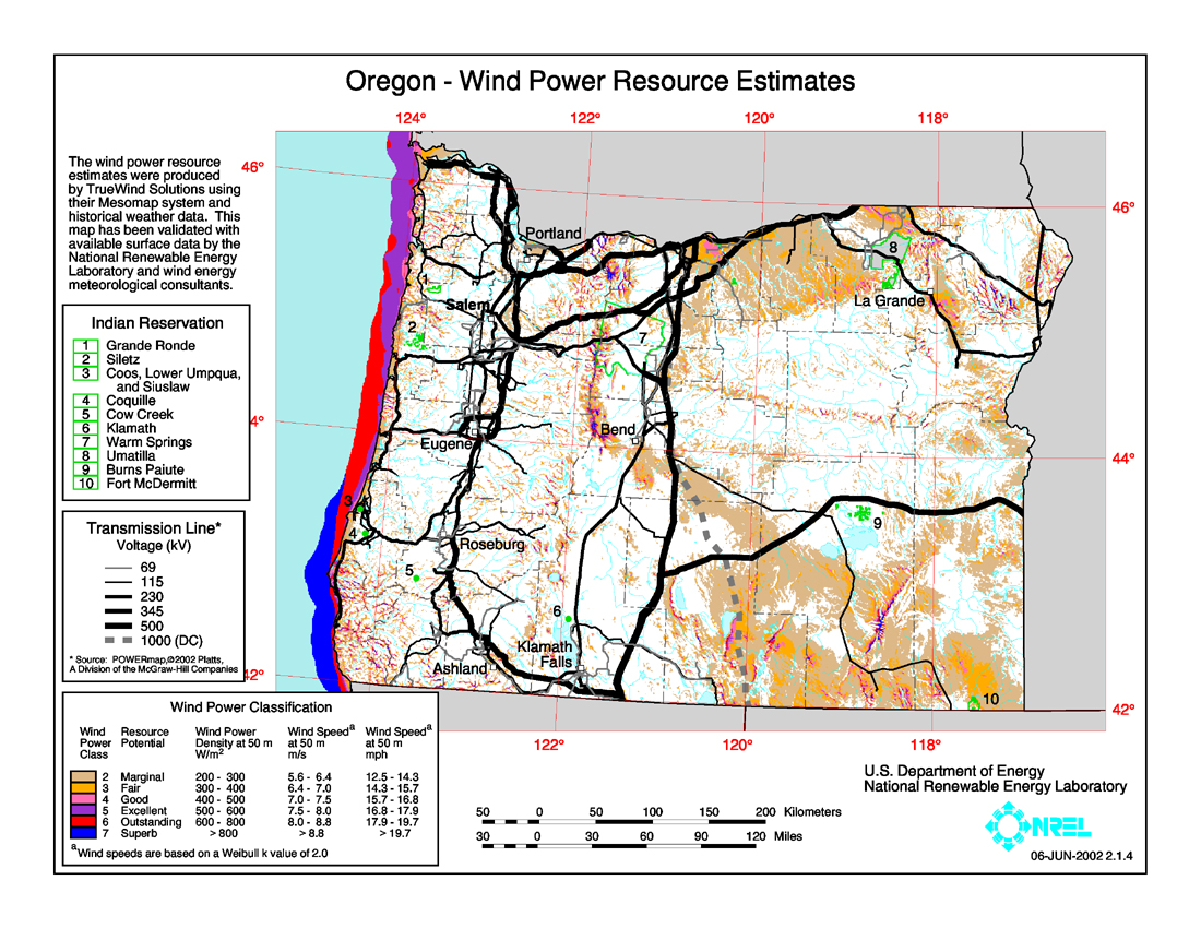 Average annual wind power distribution for Oregon, 50m height above ground, also showing location of existing electrical transmission lines